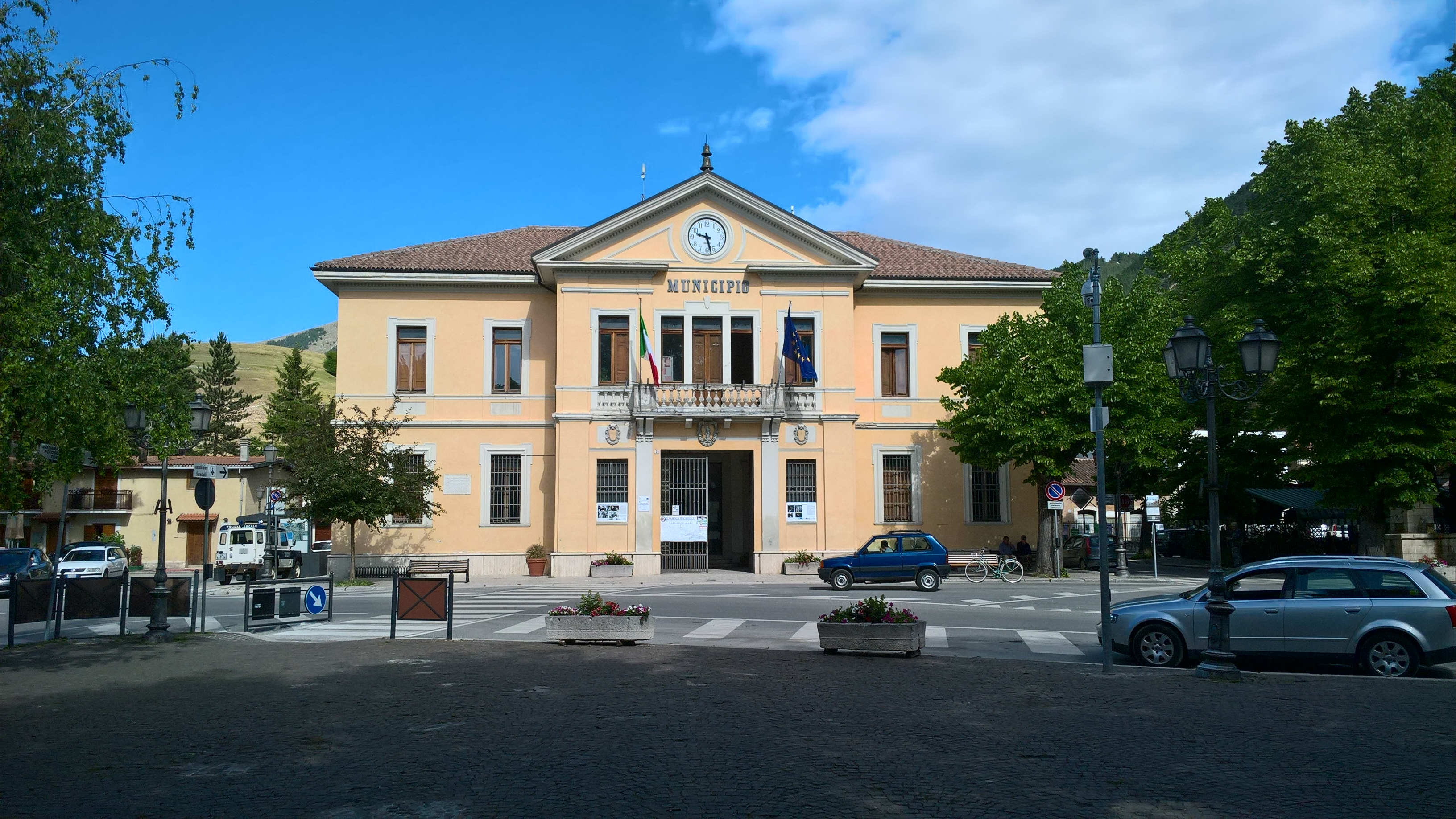 Pescasseroli - Town house